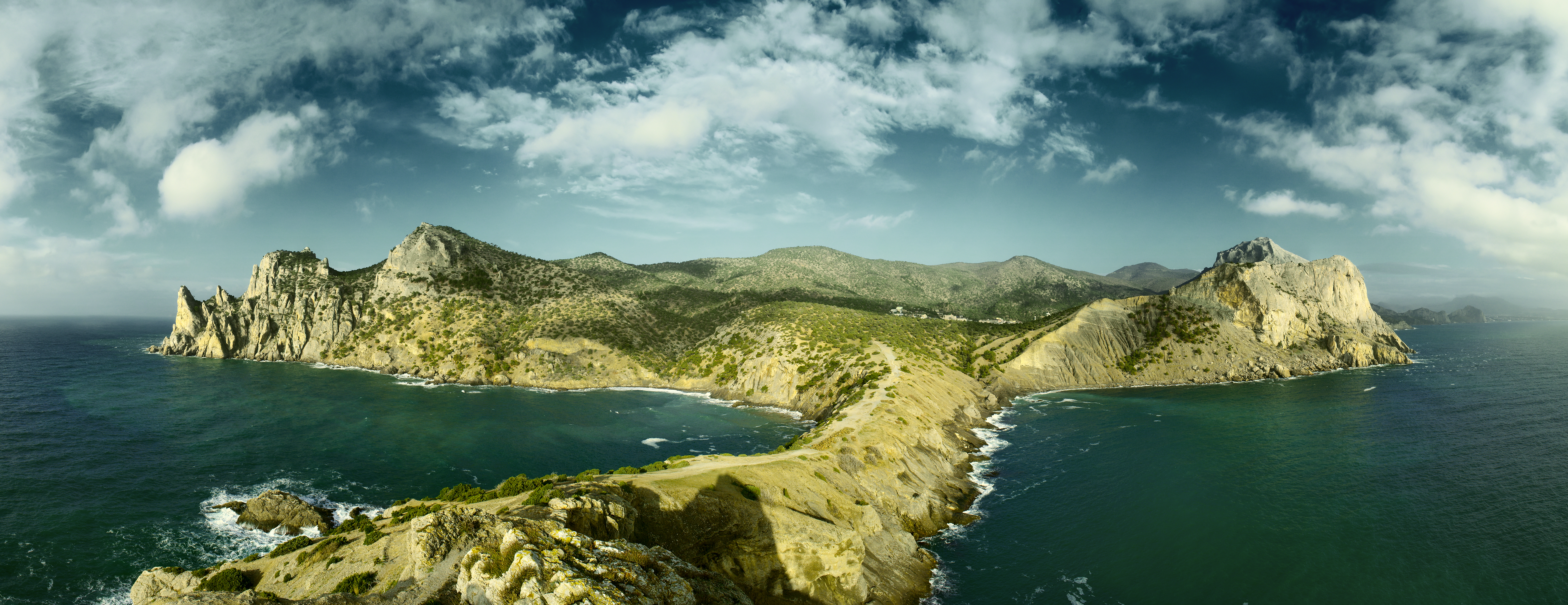 Peninsula. Novyi Svit Sanctuary, coastal aquatic system between Novyi Svit and Sudak, Autonomous Republic of Crimea